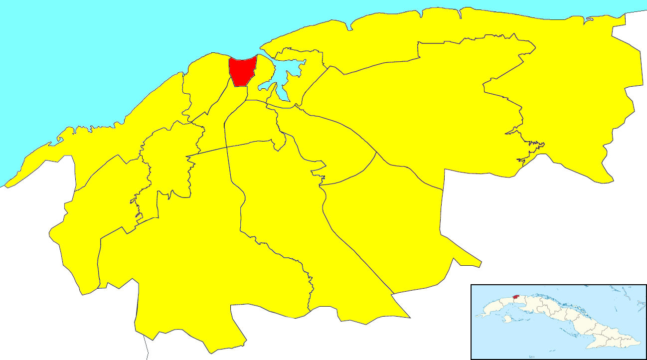 A map of the municipality of Centro Habana (shown in red) within the city of Havana (yellow). The little Cuban map in the corner shows Havana (dark red) within the island.